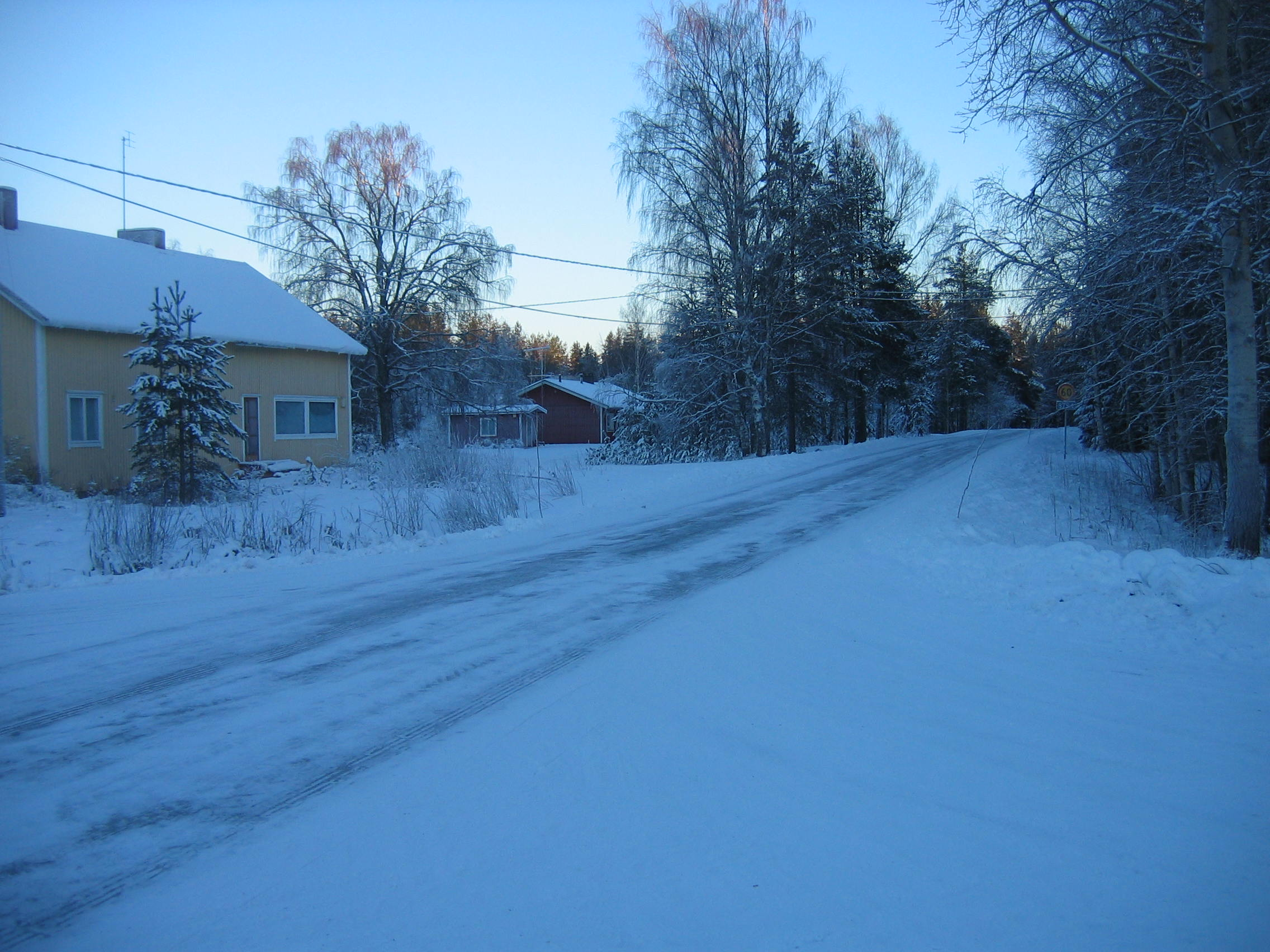 Connecting road 8794 in Nuojua, Finland, seen towards Vaala.